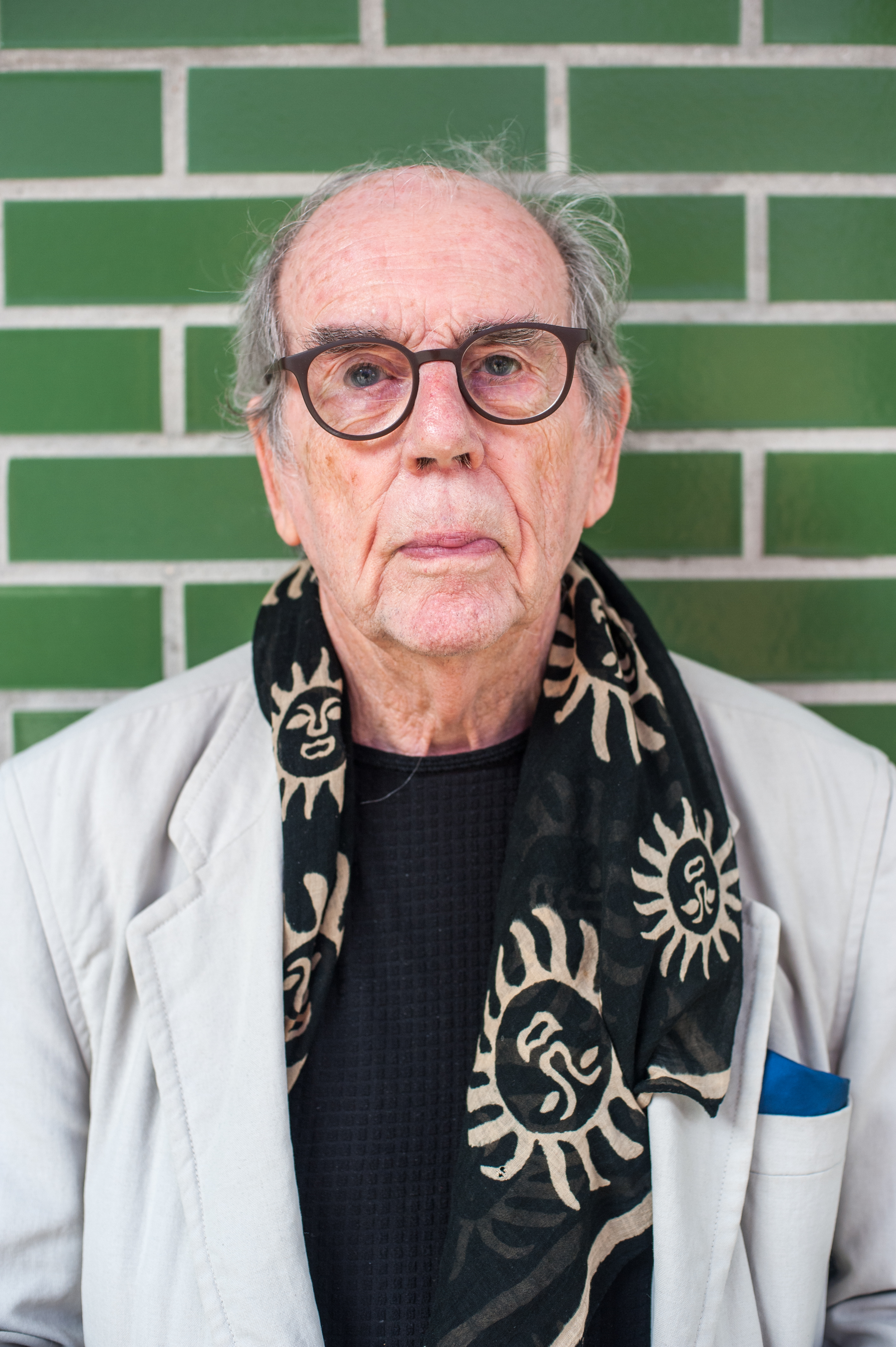 Portrait of British documentary photographer David Hurn in 2018.